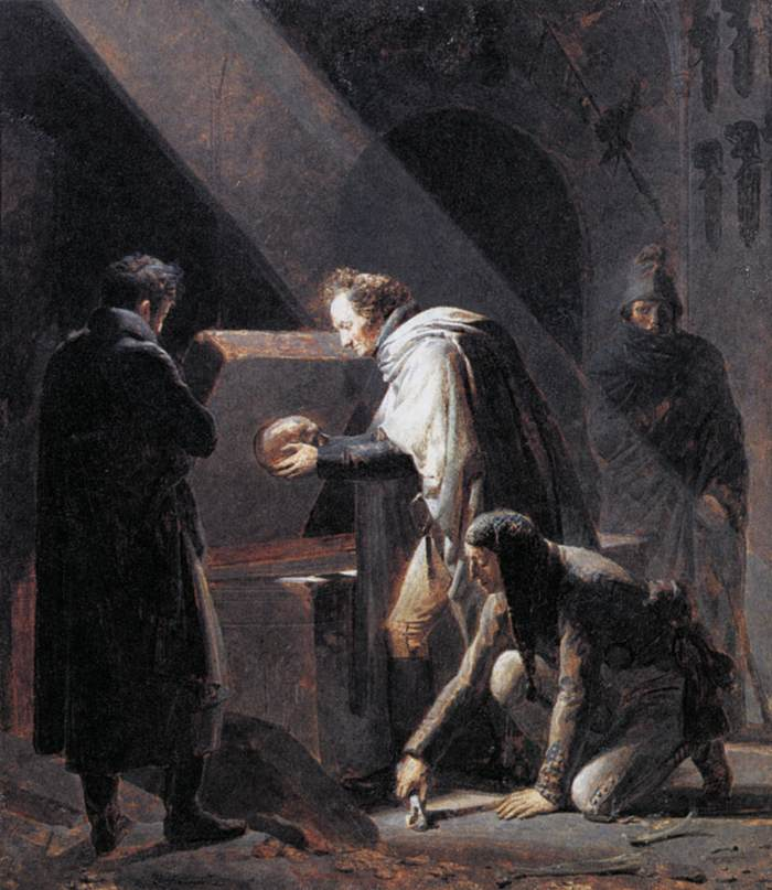 Dominique-Vivant Denon (1747-1825) was a French painter, printmaker, illustrator and author. A diplomat under the ancien régime, he served Napoleon as supervisor of the scholars sent with his Egyptian campaign, and afterwards as director of the Musée Napoleon (Louvre). As organizer of the Salon exhibitions under the empire he had great powers of patronage and largely dictated the programmes of the pictures of the Napoleonic campaigns painted by Gros and others. His taste was eclectic and he also encouraged young artists, such as Alexandre-Evariste Fragonard. Denon had a passion for collecting relics of the great - bones of Abelard, a tooth of Voltaire, whiskers from Henri IV's moustache - and Fragonard depicts him replacing in its tomb, after an evidently minute examination, the skull of the semi-legendary eleventh-century Spanish hero El Cid. In a subtly edited form, this referred to events during the French siege of the Spanish city of Burgos in 1808, when a regiment of dragoons, hoping to find gold and jewels, destroyed El Cid's monument in San Pedro de Cardena near the city. The French governor of Castille, appalled at this sacrilege, salvaged what he could of the remains and built a new monument in Burgos, but not before he had presented Denon with a parcel of the great man's bones. Far from replacing them where they belonged, Denon kept them for the rest of his life.